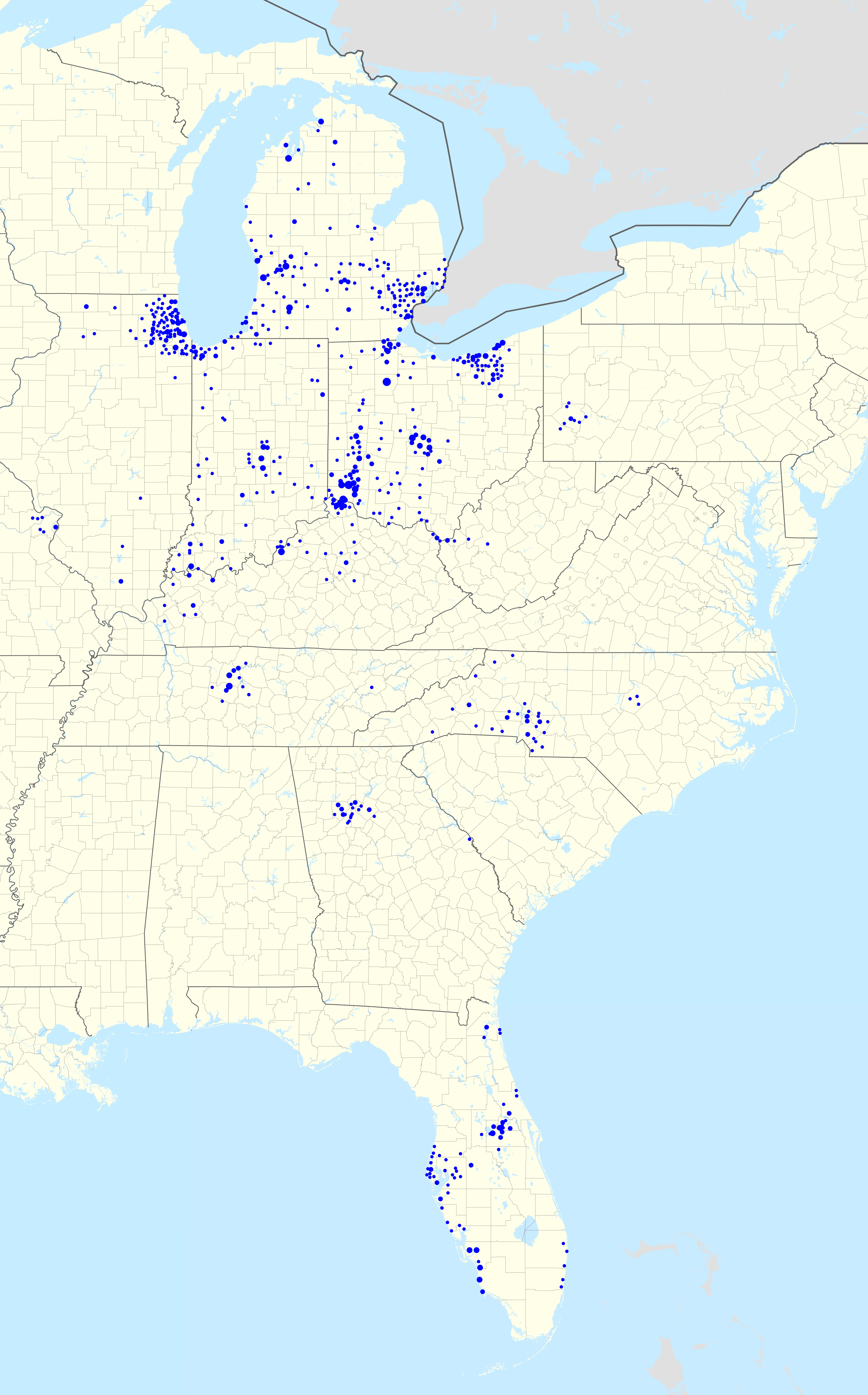 Fifth Third Banks